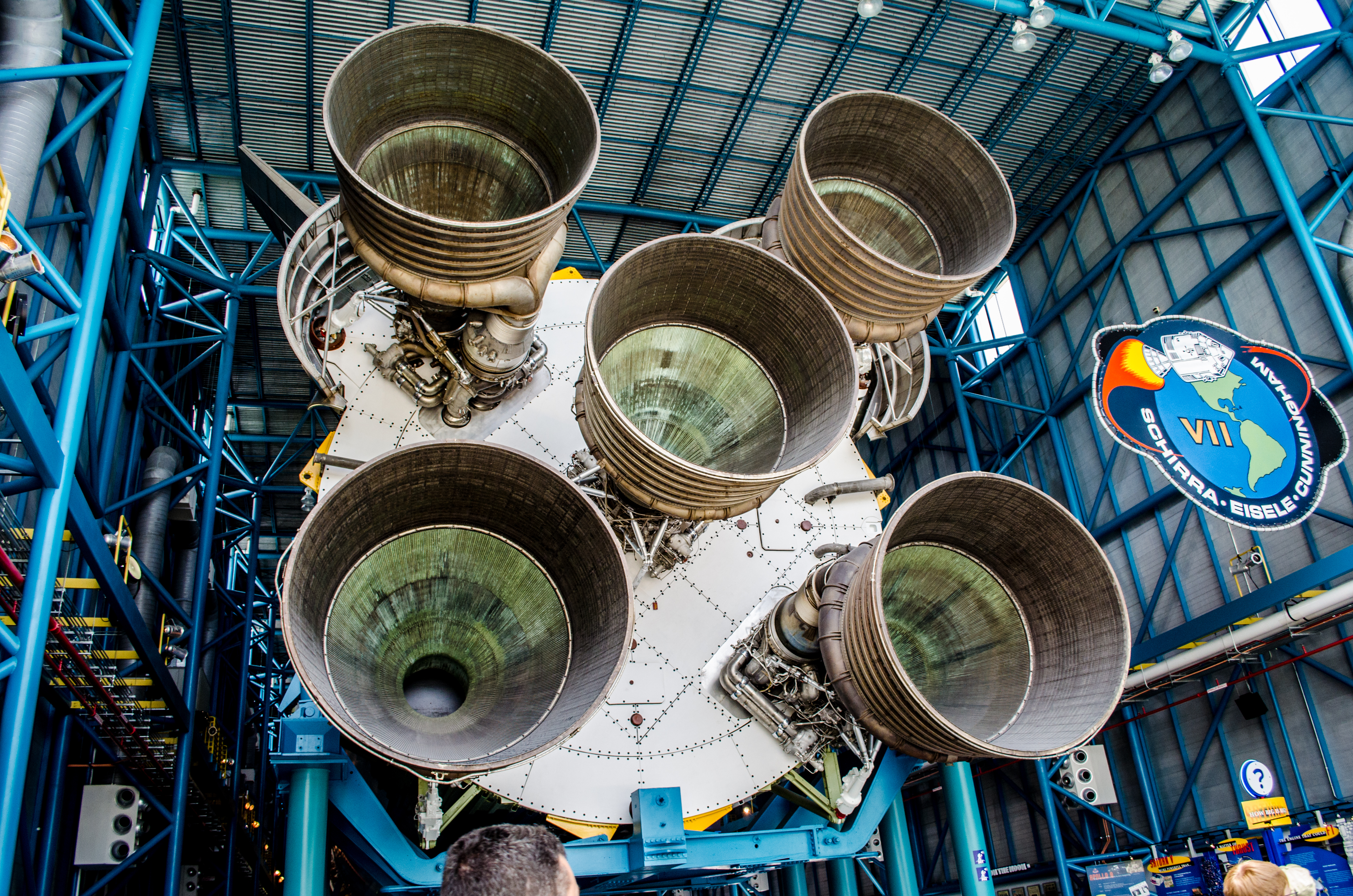 Backend of Saturn 5 Rocket at Kennedy Space Center Visitor Complex